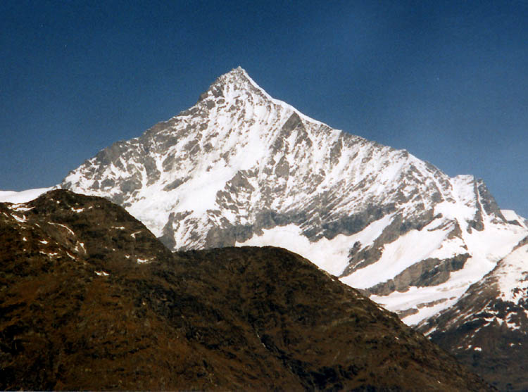 Photo of the Weisshorn from the south